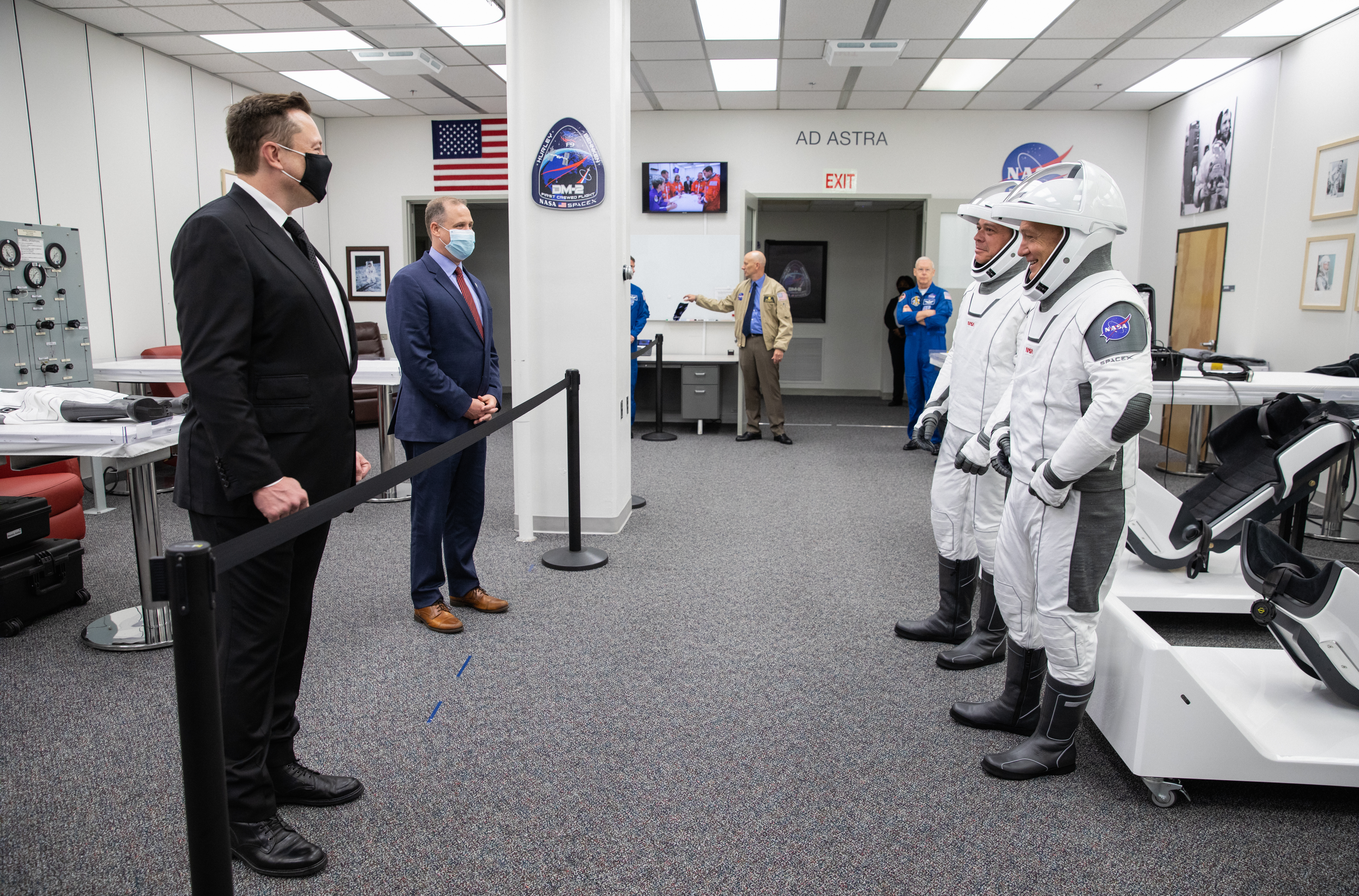 Behind the rope, SpaceX CEO and Chief Designer Elon Musk (left) and NASA Administrator Jim Bridenstine greet NASA astronauts Robert Behnken (left) and Douglas Hurley inside the Astronaut Crew Quarters in the Neil A. Armstrong Operations and Checkout Building at NASA’s Kennedy Space Center in Florida ahead of the agency’s SpaceX Demo-2 mission. The launch, initially scheduled for May 27, 2020, was scrubbed due to unfavorable weather conditions around Launch Complex 39A. The next launch attempt will be Saturday, May 30. Liftoff of the SpaceX Falcon 9 rocket and Crew Dragon spacecraft is scheduled for 3:22 p.m. EDT from historic Launch Complex 39A. Behnken and Hurley will be the first astronauts to launch to the International Space Station from U.S. soil since the end of the Space Shuttle Program in 2011. Part of NASA’s Commercial Crew Program, this will be SpaceX’s final flight test, paving the way for the agency to certify the crew transportation system for regular, crewed flights to the orbiting laboratory.